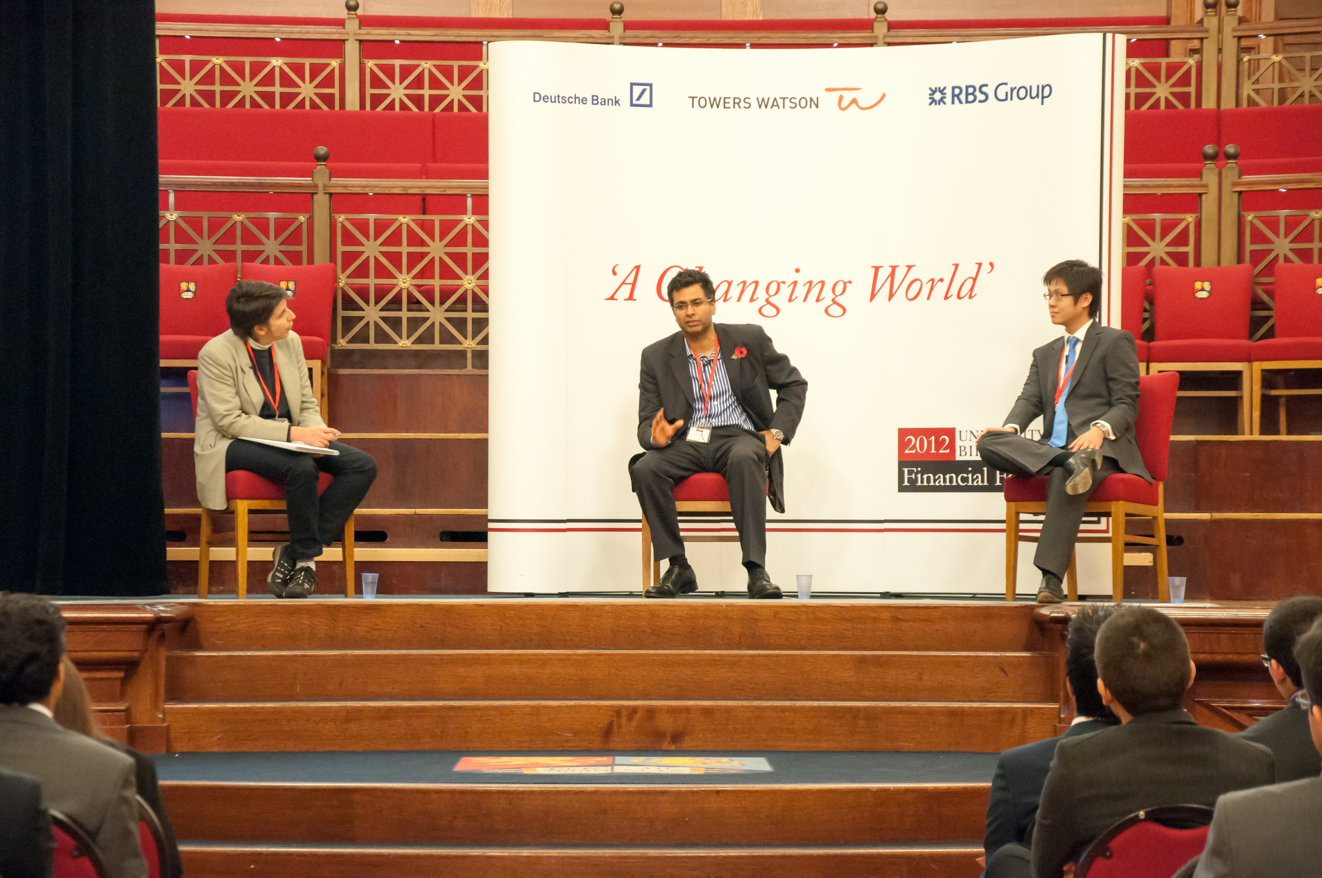 Panel discussion on the Global Implications of the Eurocrisis - John Zhu, Jeavon Lolay and Alessandra Guariglia